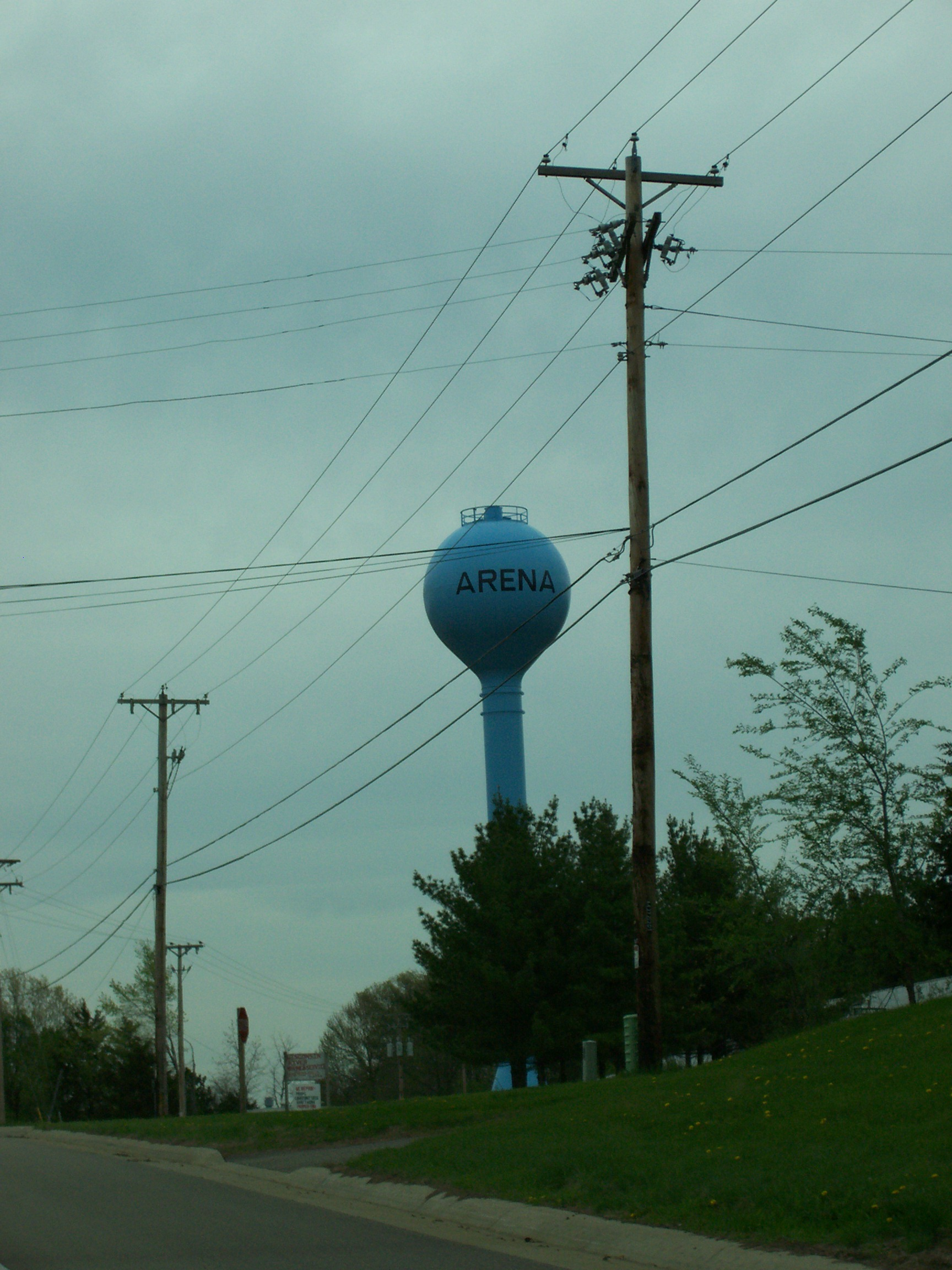 The water tower for Arena, Wisconsin, USA while traveling on U.S. Route 14.